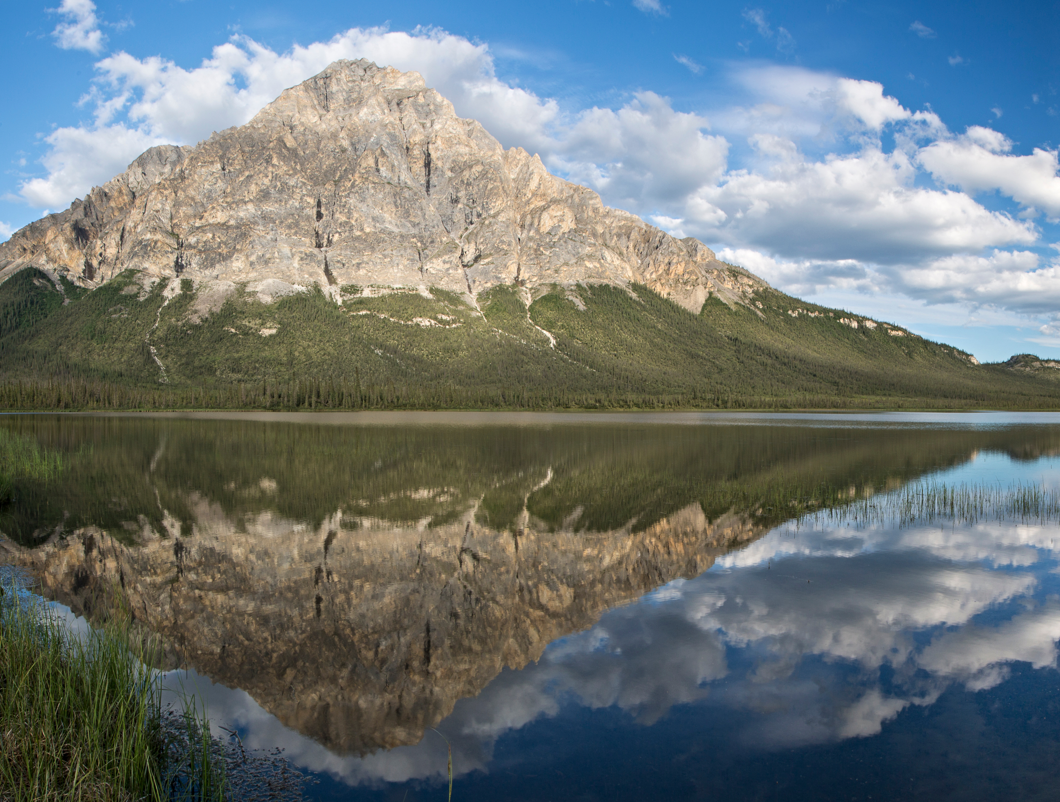 Dillon Mountain from Dalton Highway (MilePost 203)